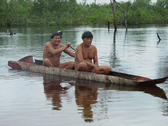 Two Kalapalo men canoeing in Brazil. Photo by Eduardo Giacomazzi.